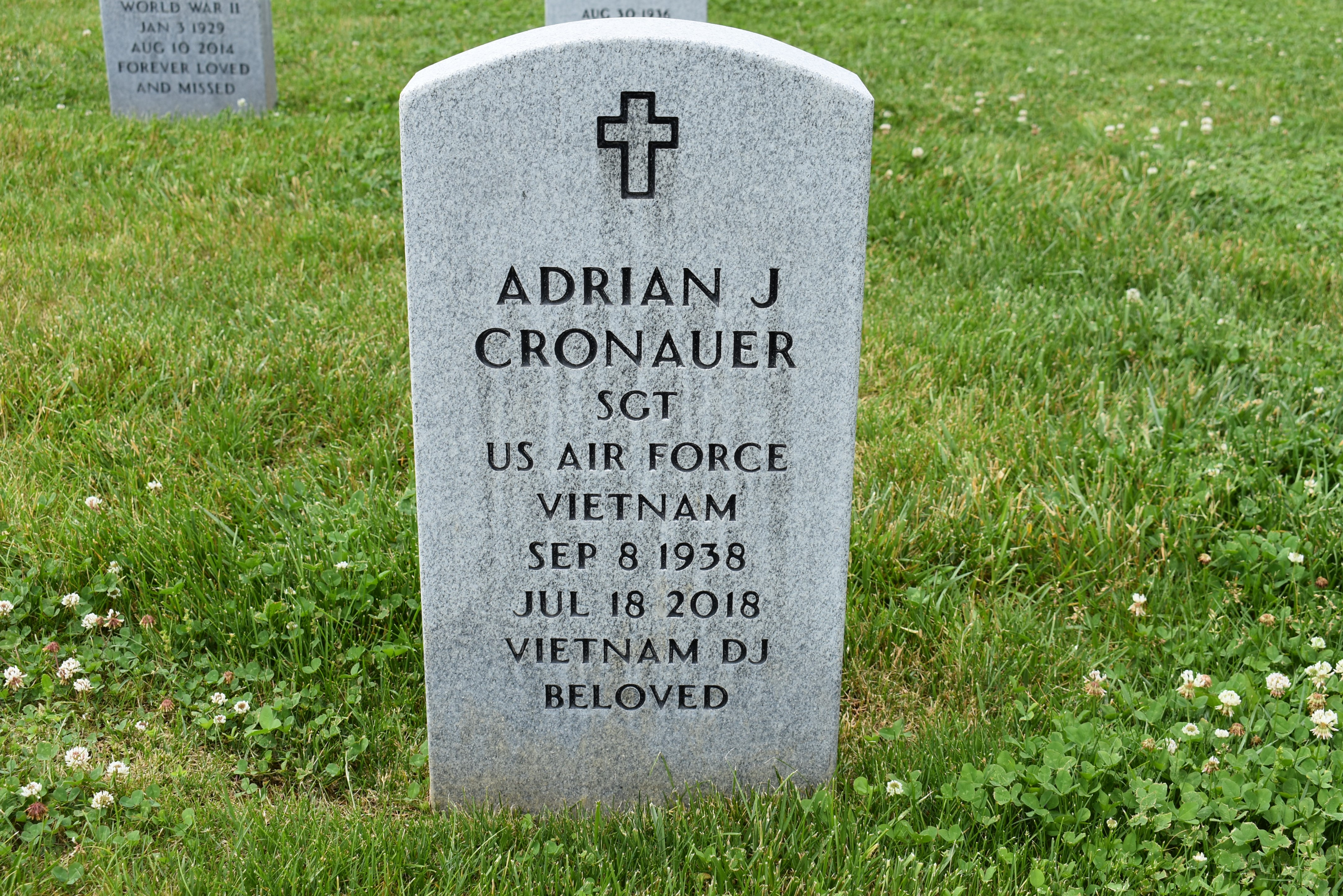 Adrian J. Cronauer was a former U.S. Air Force sergeant. He co-authored the original story for the major motion picture, "Good Morning, Vietnam" In that film, Cronauer was por-trayed—loosely-—by Robin Williams whose performance was nominated for an Academy Award. Mr. Cronauer sat on the Board of Directors of the National D-Day Memorial and has served as a member of the Virginia Public Broadcasting Board, and the Board of Governors of the New School for Social Research in New York City. He served two terms as a trustee of the Virginia War Memorial He was a resident of Troutville, Virginia when he died on July, 18, 2018. He is resting in the Southwest Virginia Veterans Cemetery in Dublin, Virginia.